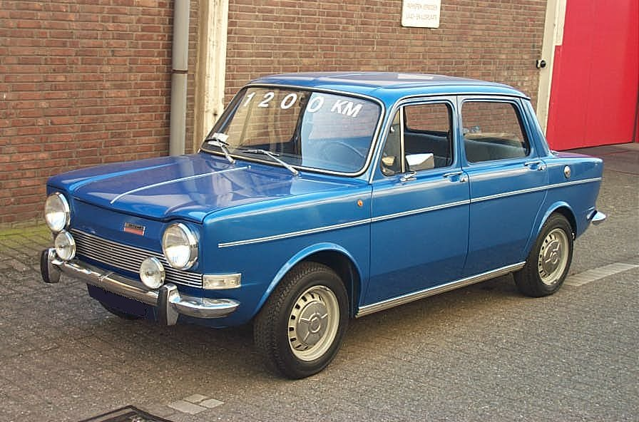 1974 Simca 1000 GL, blue The vehicle was among the many classic cars handled by the Garage de l'Est